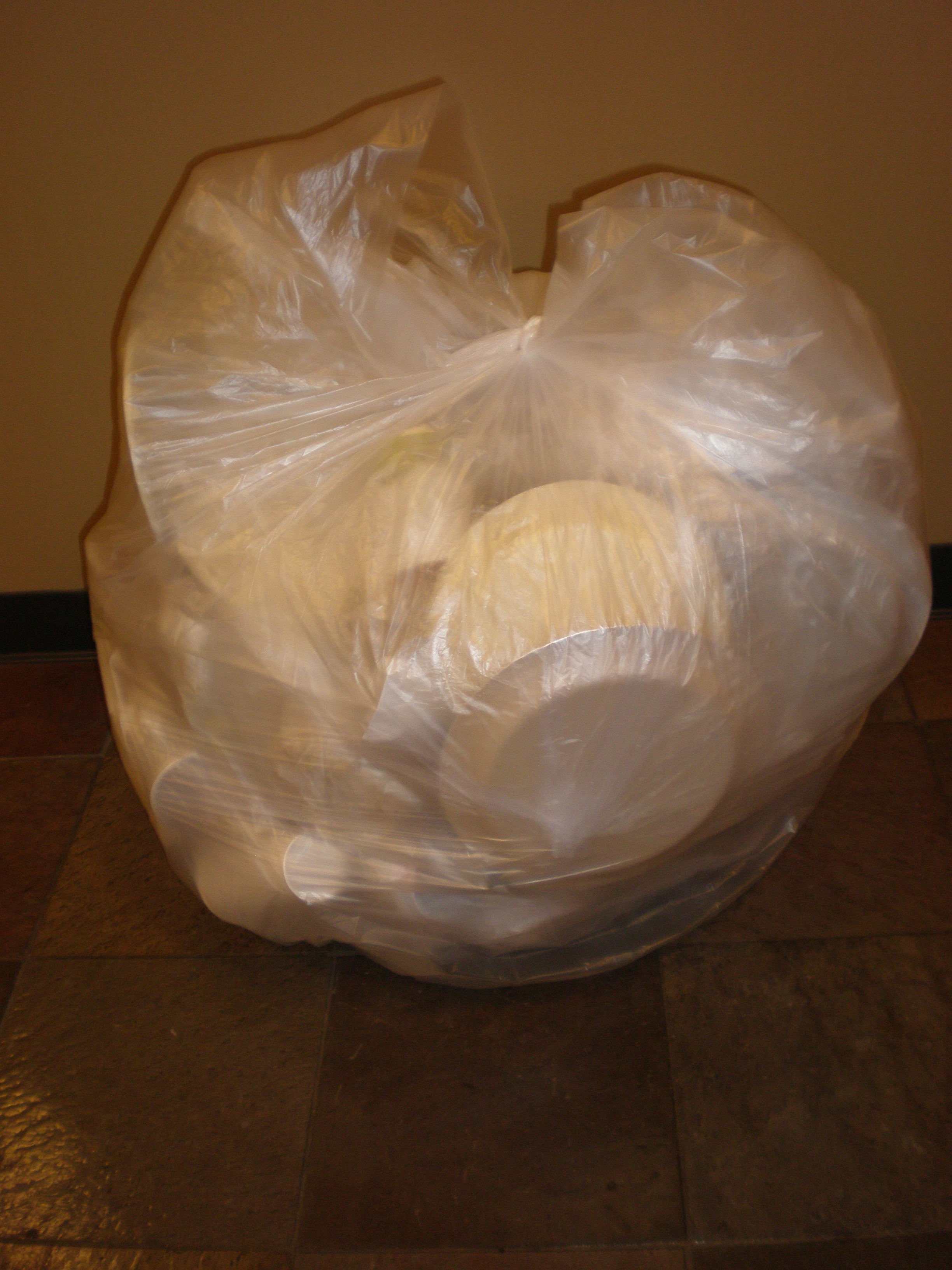 A bag of collected garbage in an office building in Palo Alto, California awaiting janitorial pickup.